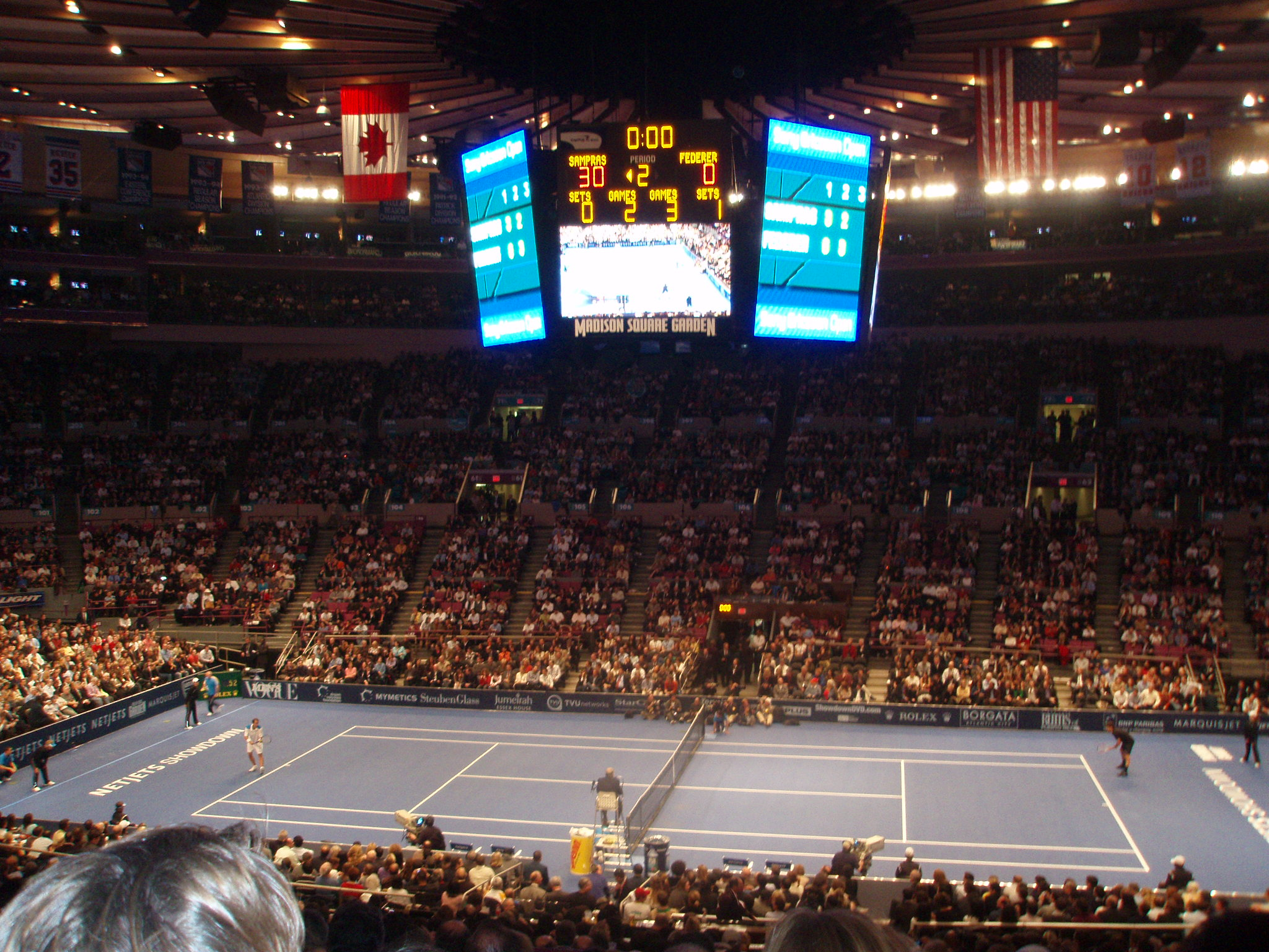 Pete Sampras In The NetJets Showdown Exhibition Against Roger Federer in Madison Square Garden